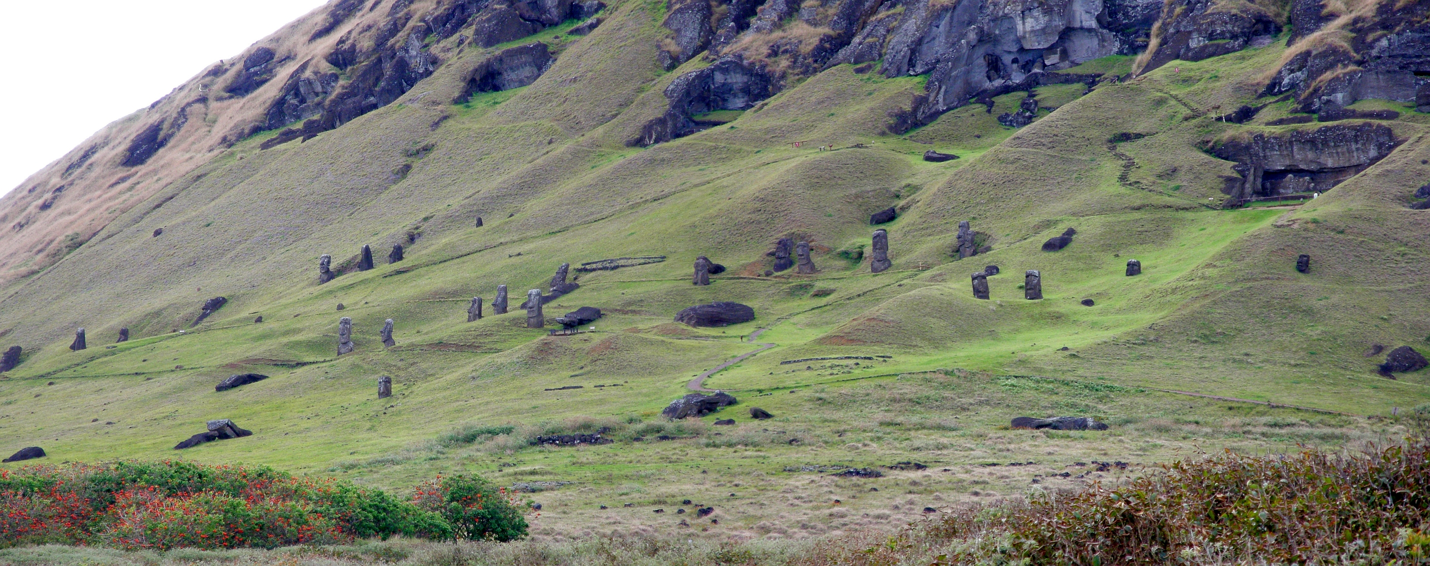 Moais quarry at Rano Raraku volcano